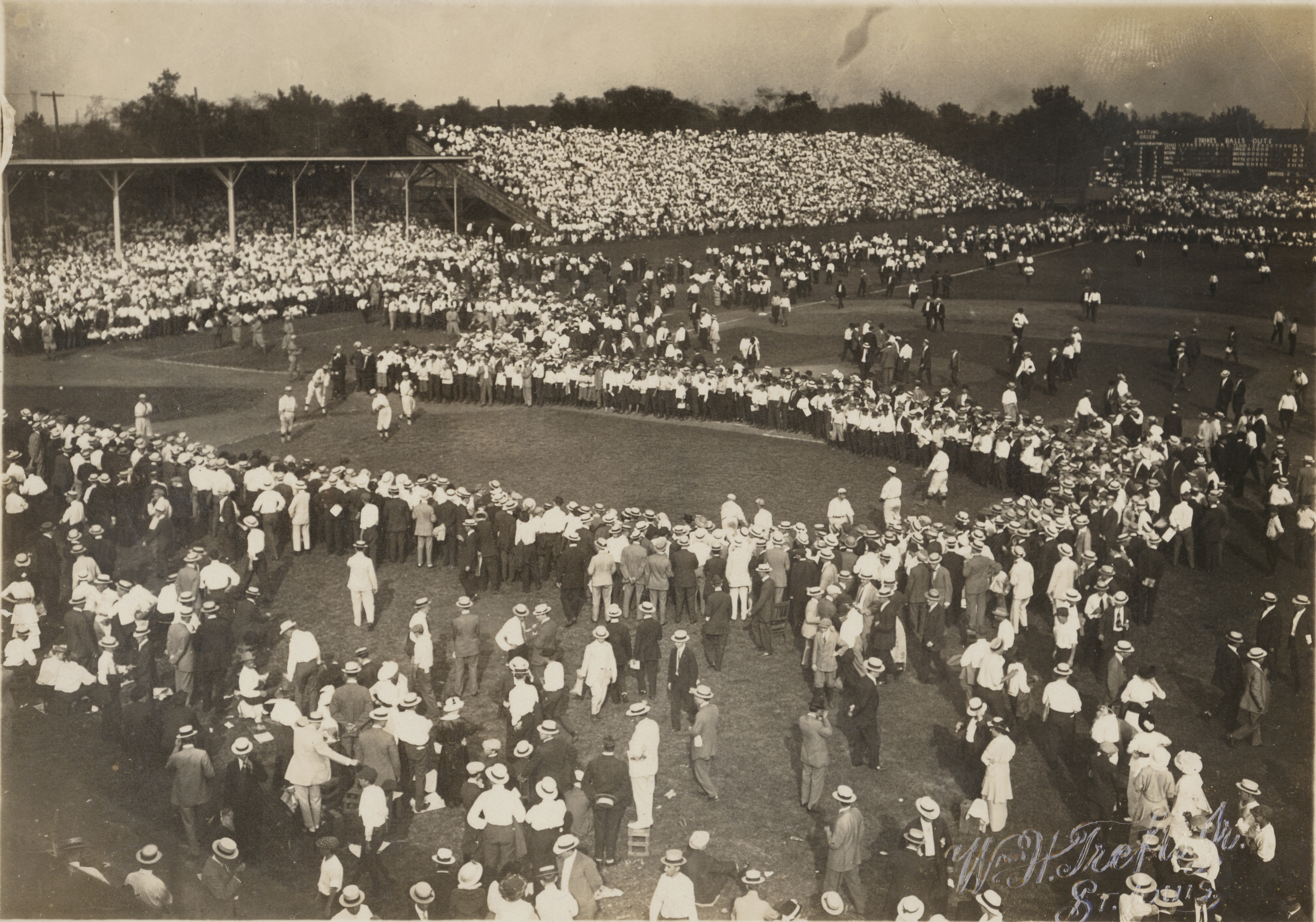 Title: Crowd gathered around St. Louis Cardinals baseball players during the pre-game warm-ups at Robison Field.